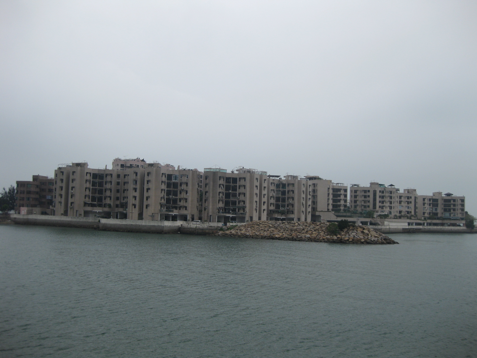 Pearl Island Apartment